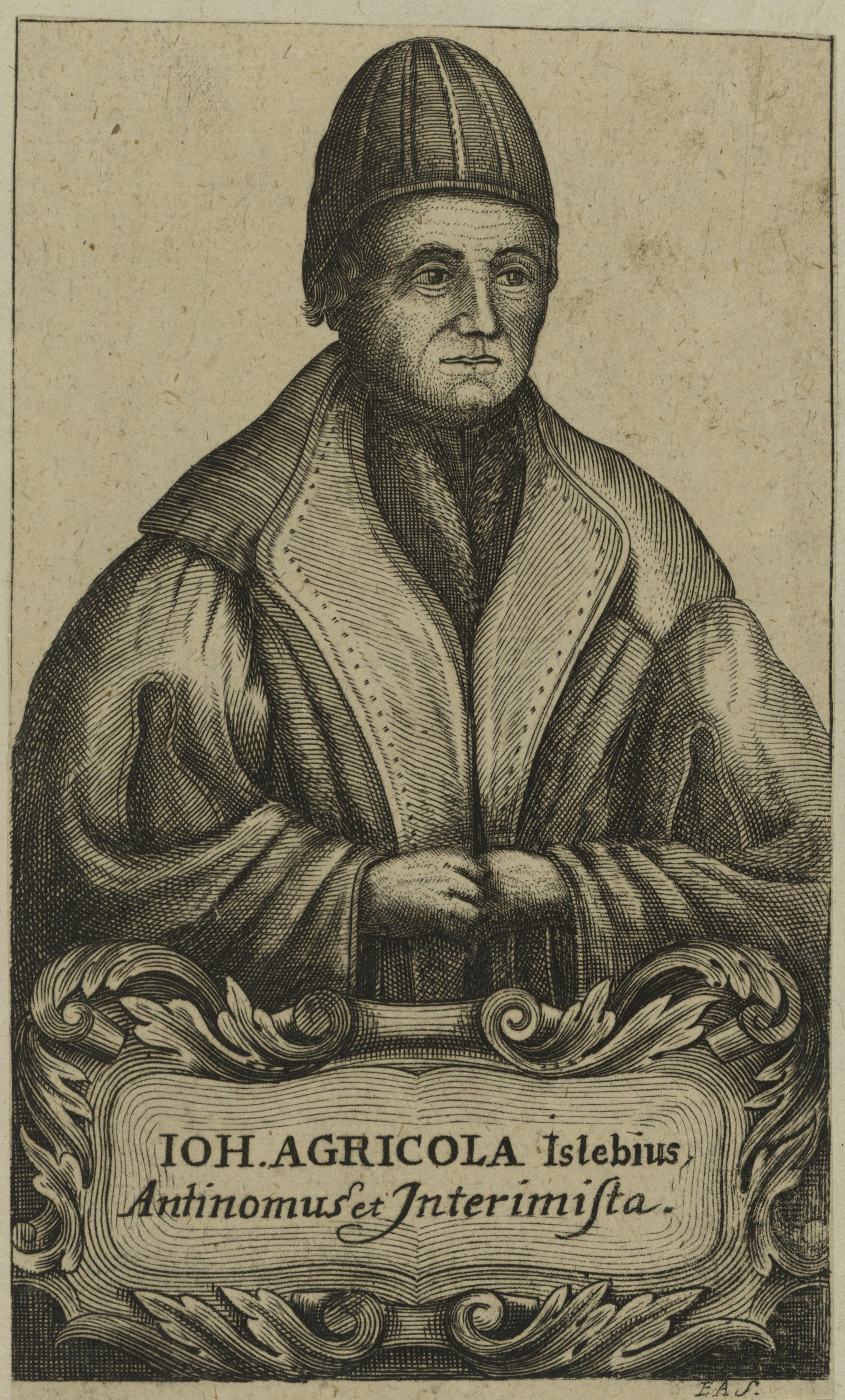 Depicted person: Johann Agricola